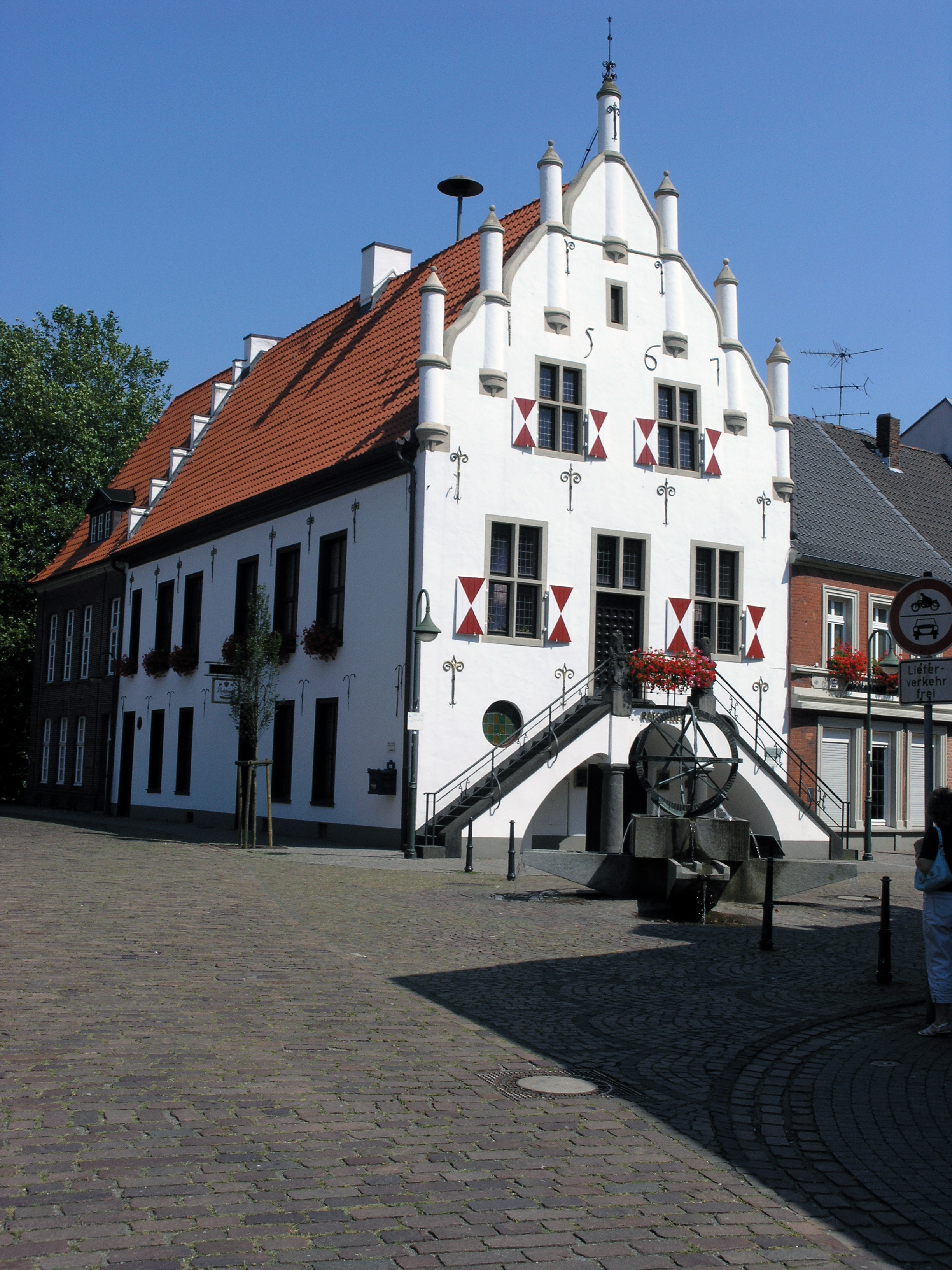 This is the old town hall in Anholt (Isselburg), the numbers near the top of the house tell you the original construction year: 1567